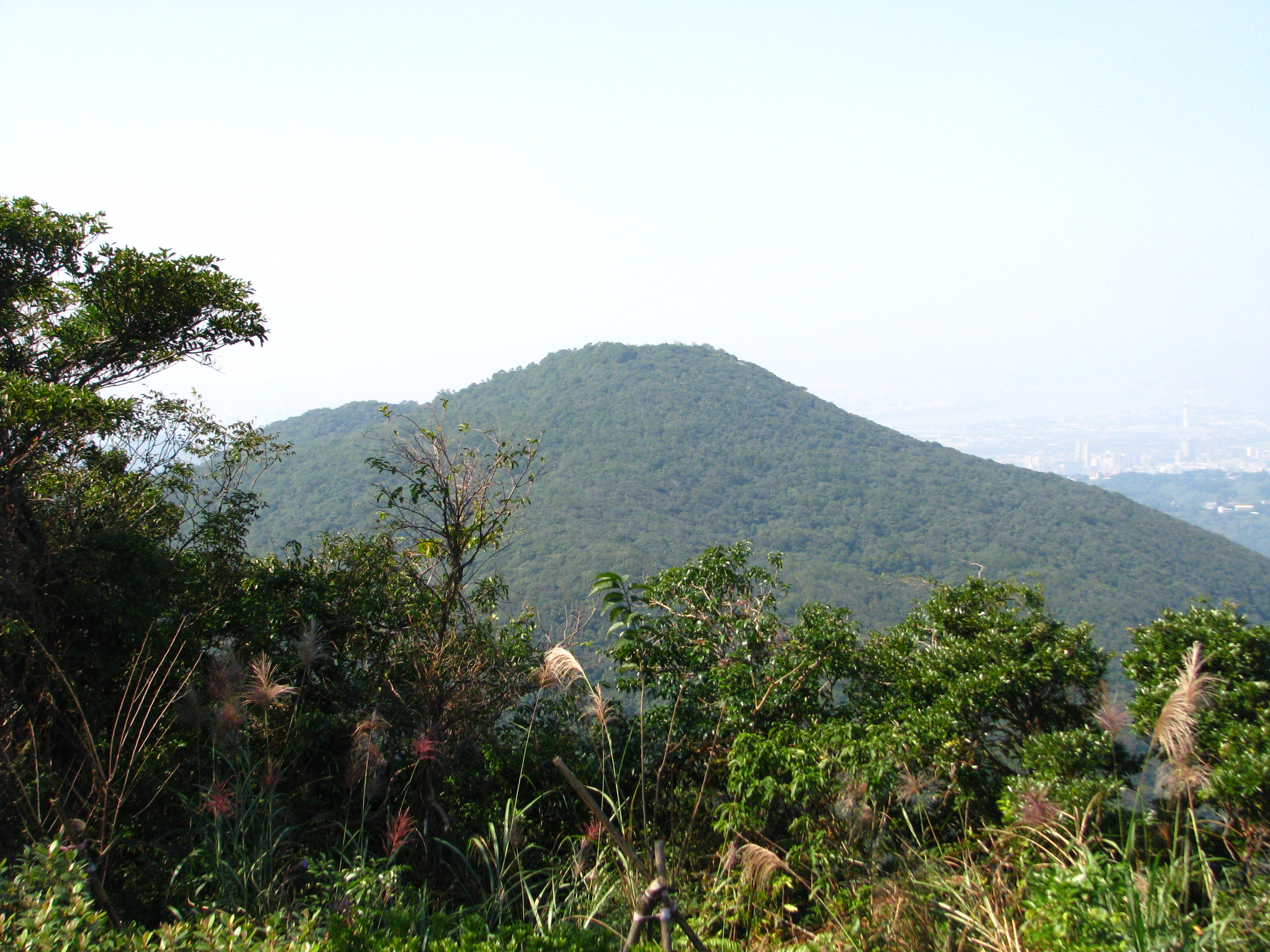 This is a hill which called Dalunwei in Taipei, Taiwan.